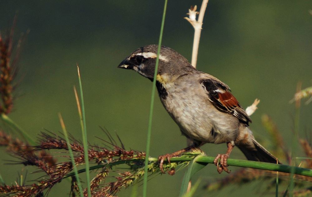 Male Dead Sea Sparrow in Bismil Kurdî: Li Qoruxçîya Bismilê ji aliyê min ve hatiye kişandin